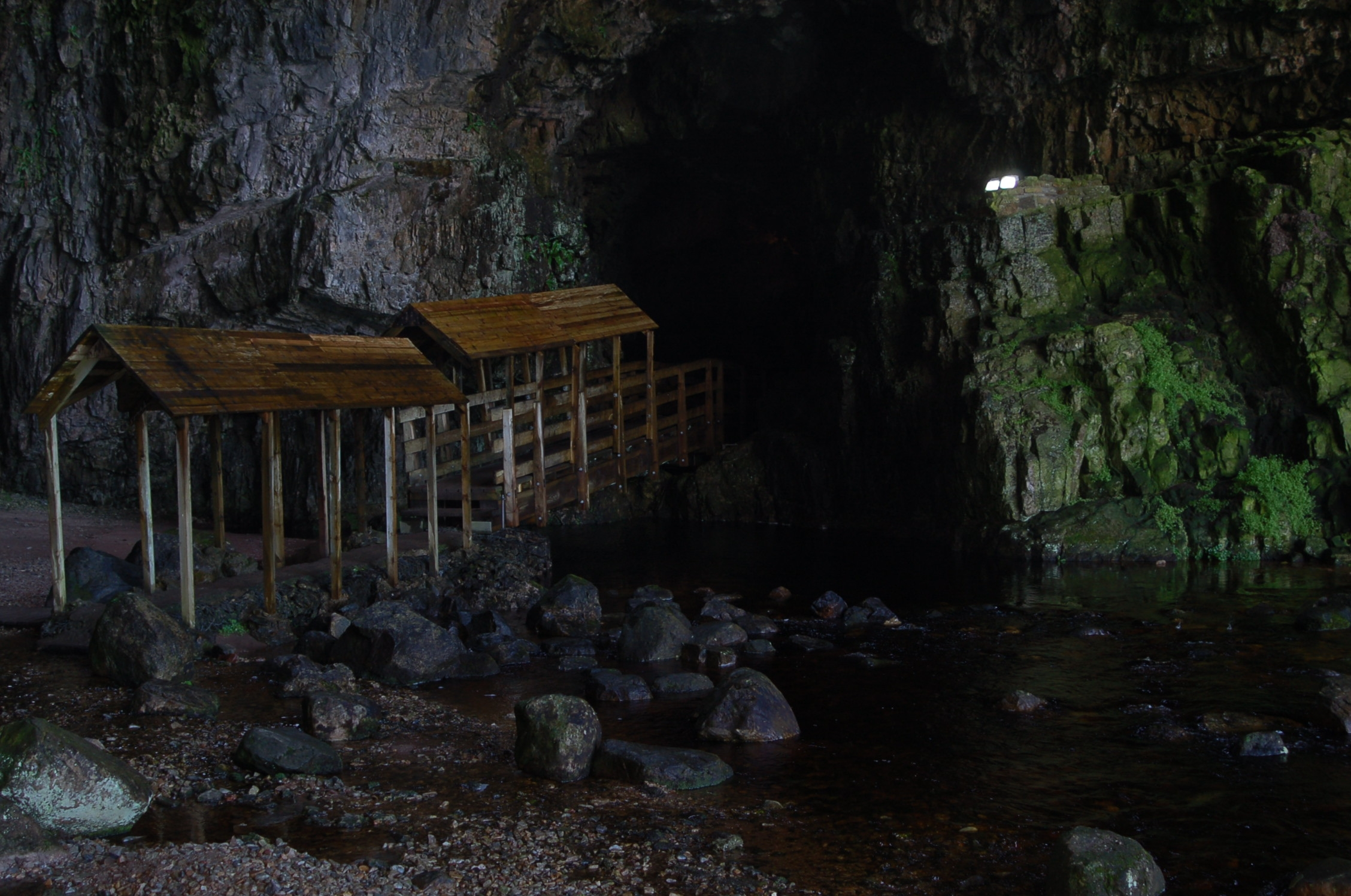 Smoo Cave Entrance - Durness (Scotland)